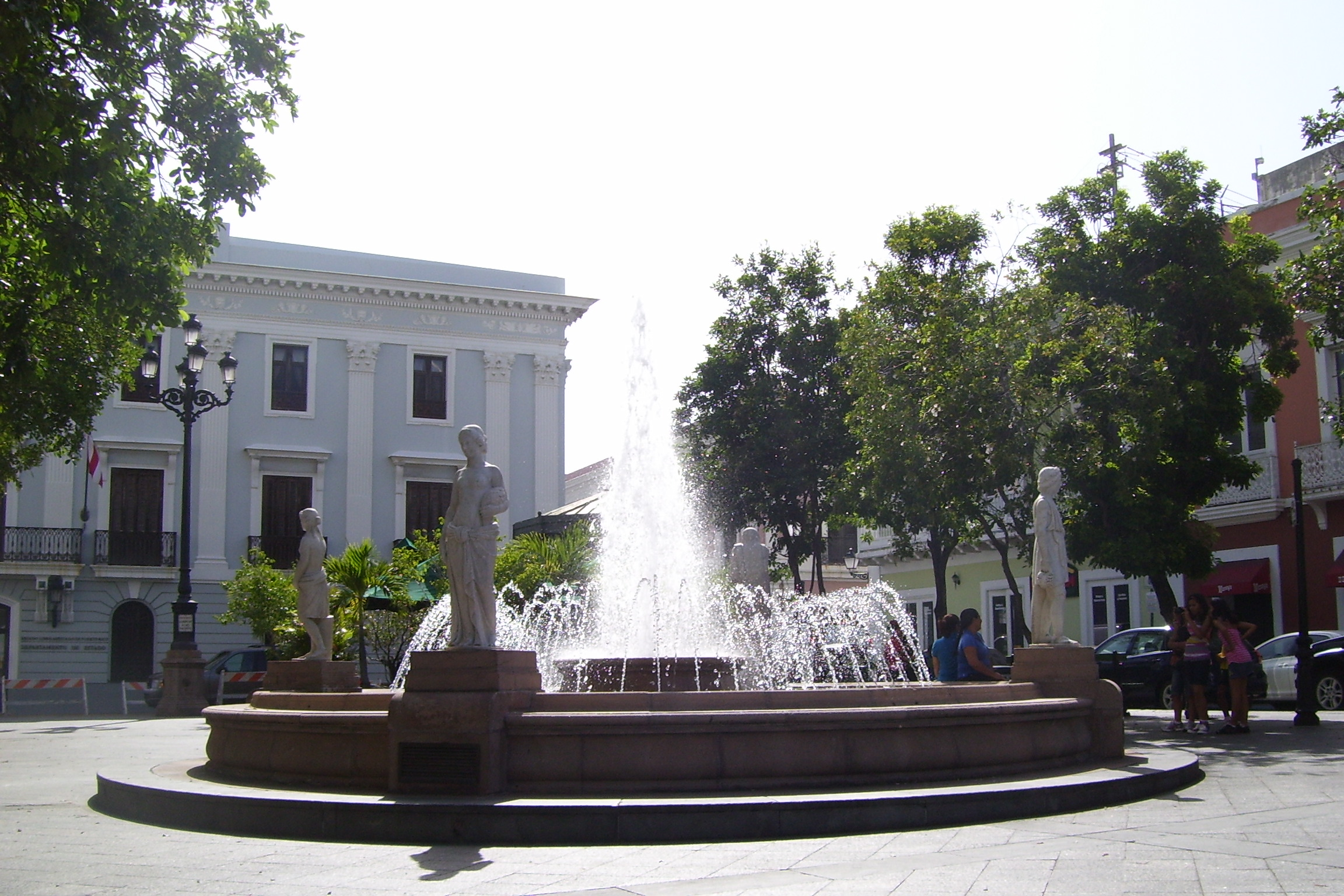 Plaza de Armas, San Juan, Puerto Rico